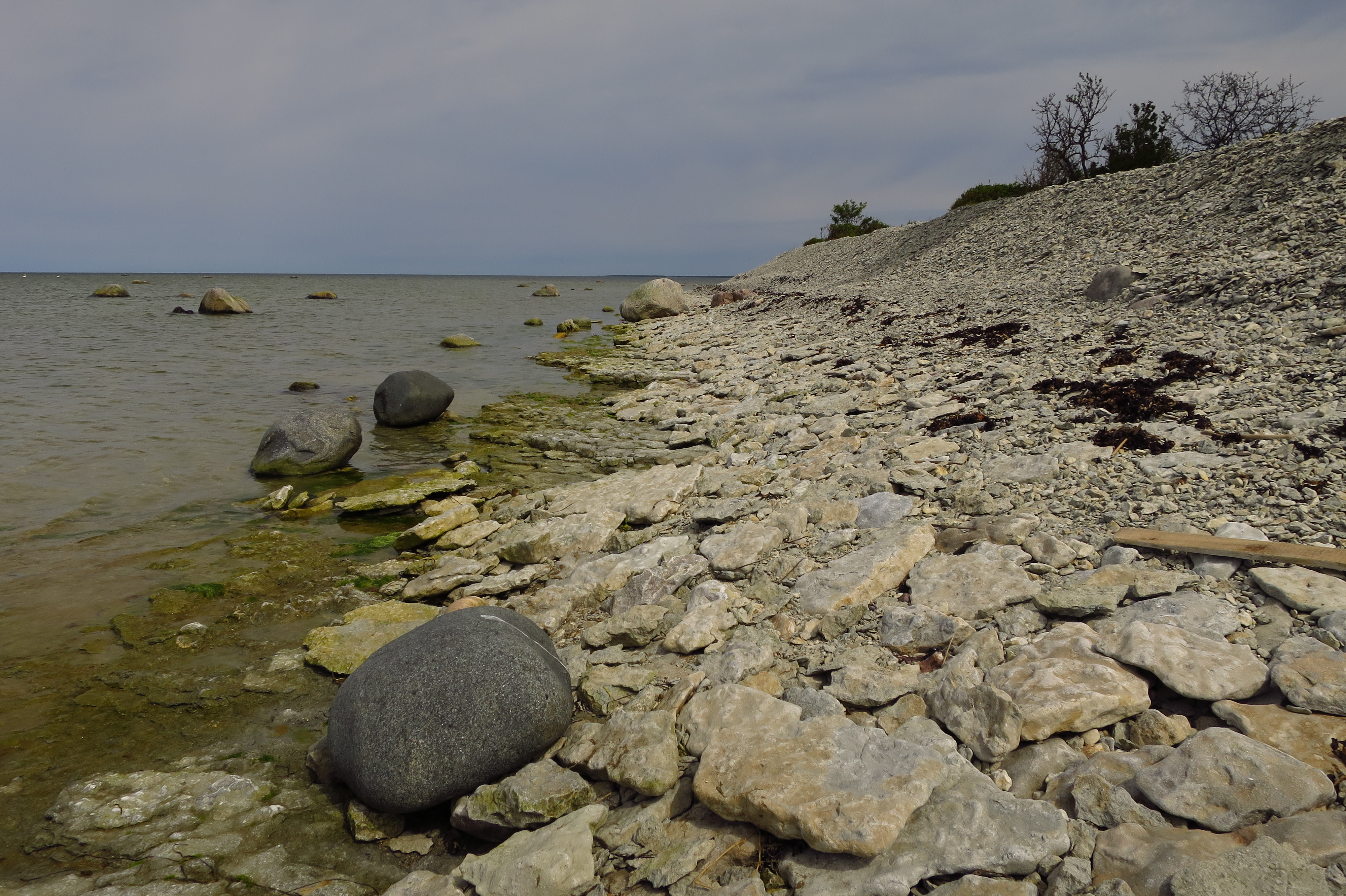 Kliburand Vesiloo laiul Vilsandi rahvuspargis